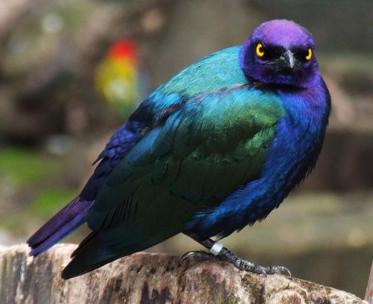 An adult Purple Glossy Starling at Kasteelpark, Born, Netherlands.